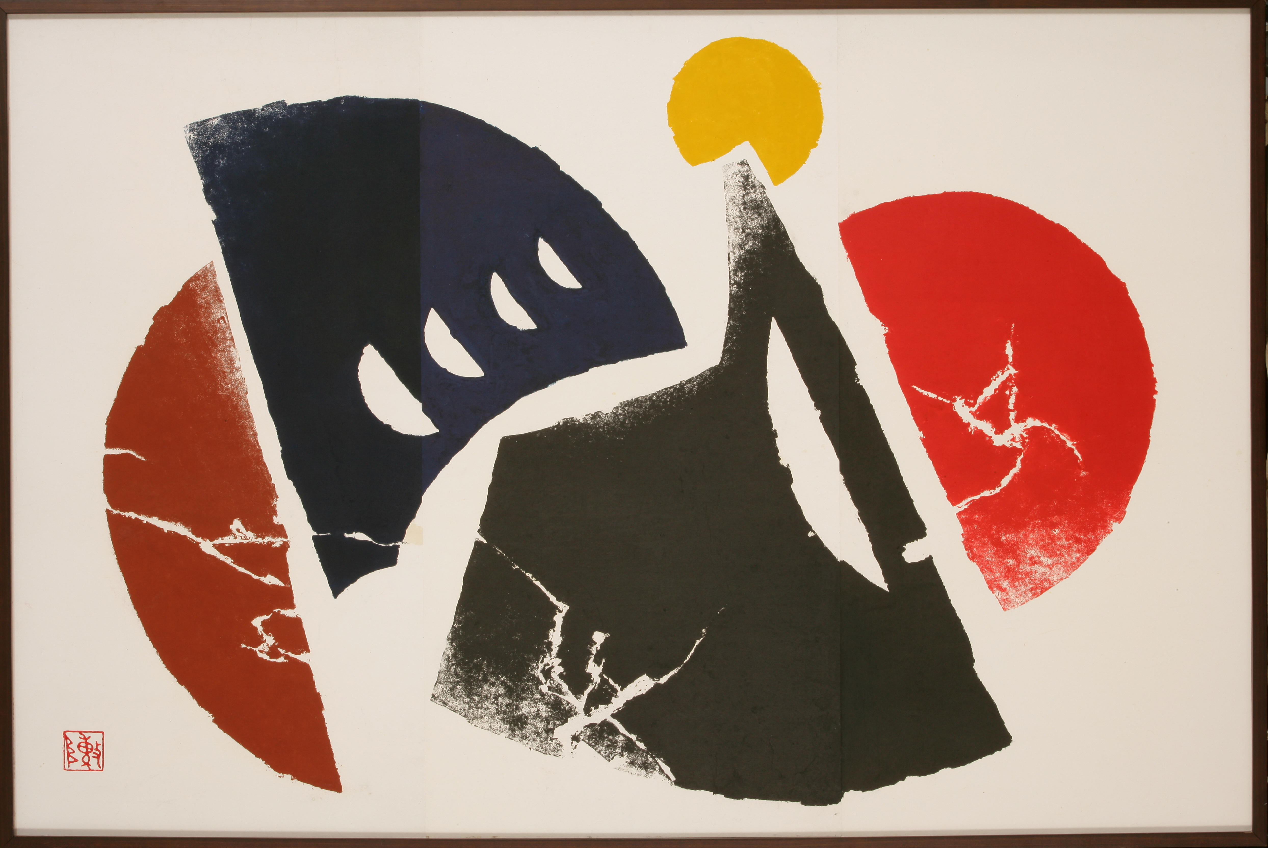 Day and Night #25 1973 121*180cm Collection of Mr. Glory Yeh